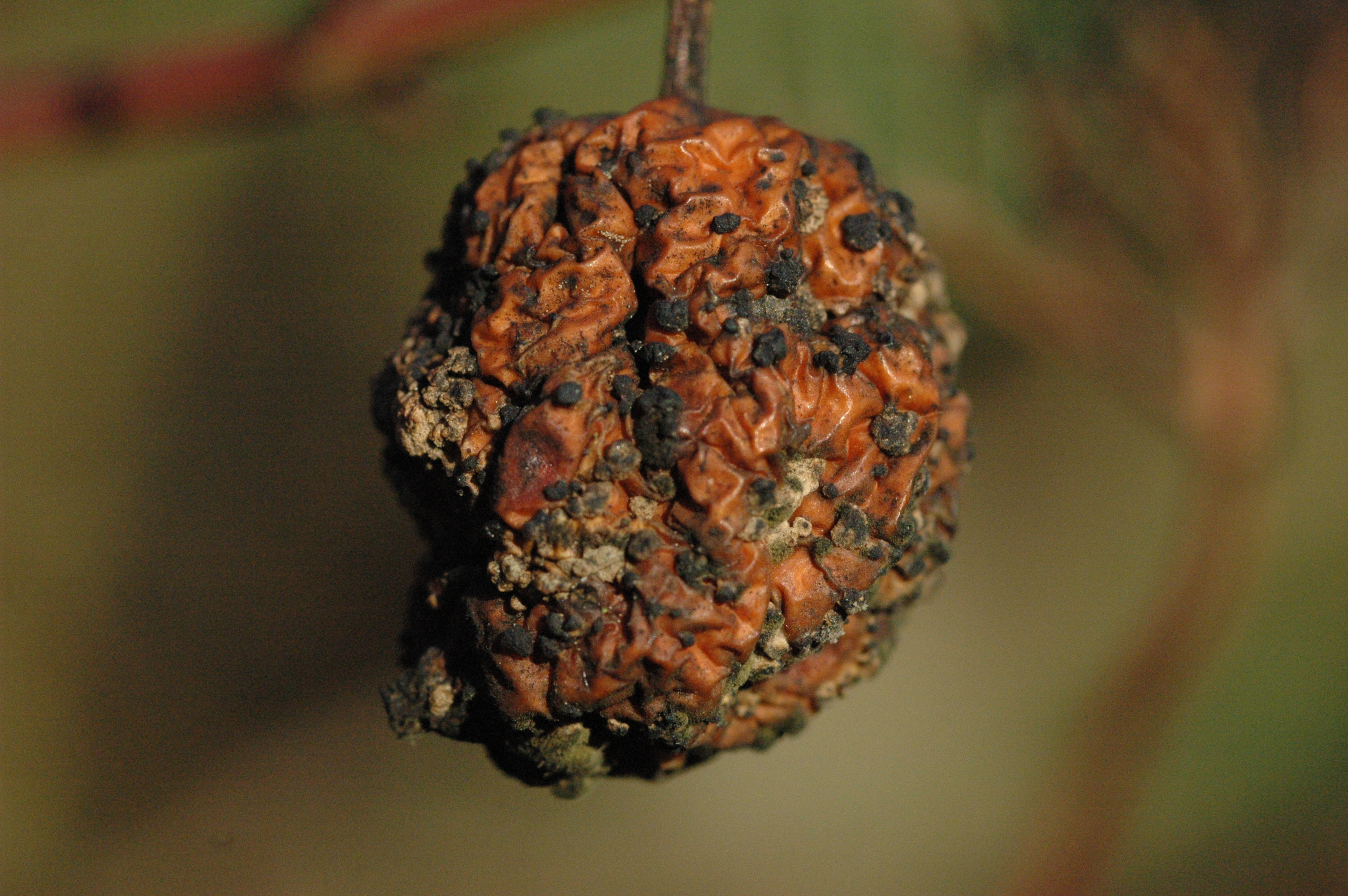 Apple, 55294 Bodenheim, Germany